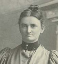 Lucy Elmina Anthony